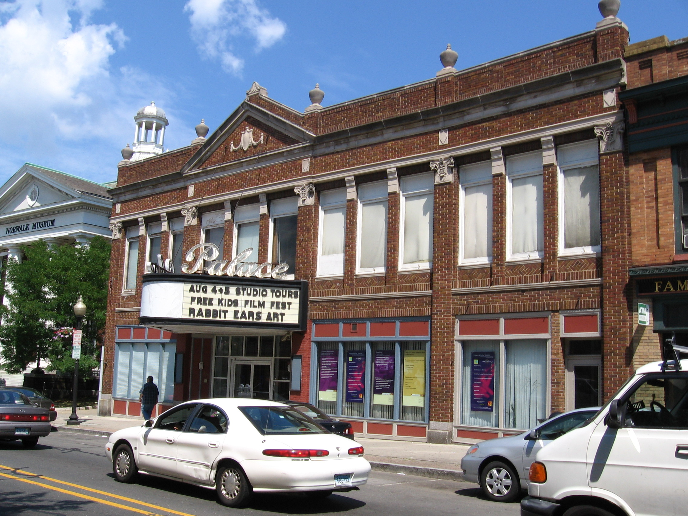 Palace Theater on North Main Street in the South Norwalk section of Norwalk, Connecticut. The former vaudeville theater and former movie theater is no longer regularly used to show films.